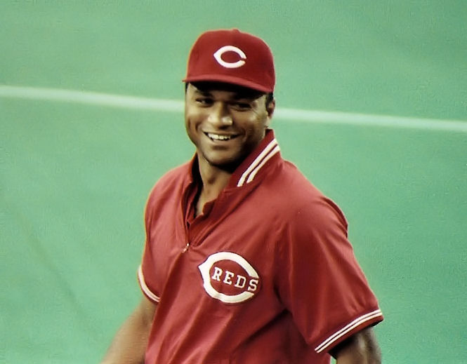 Kal Daniels before a Reds/Expos game in Montreal in July of 1988.